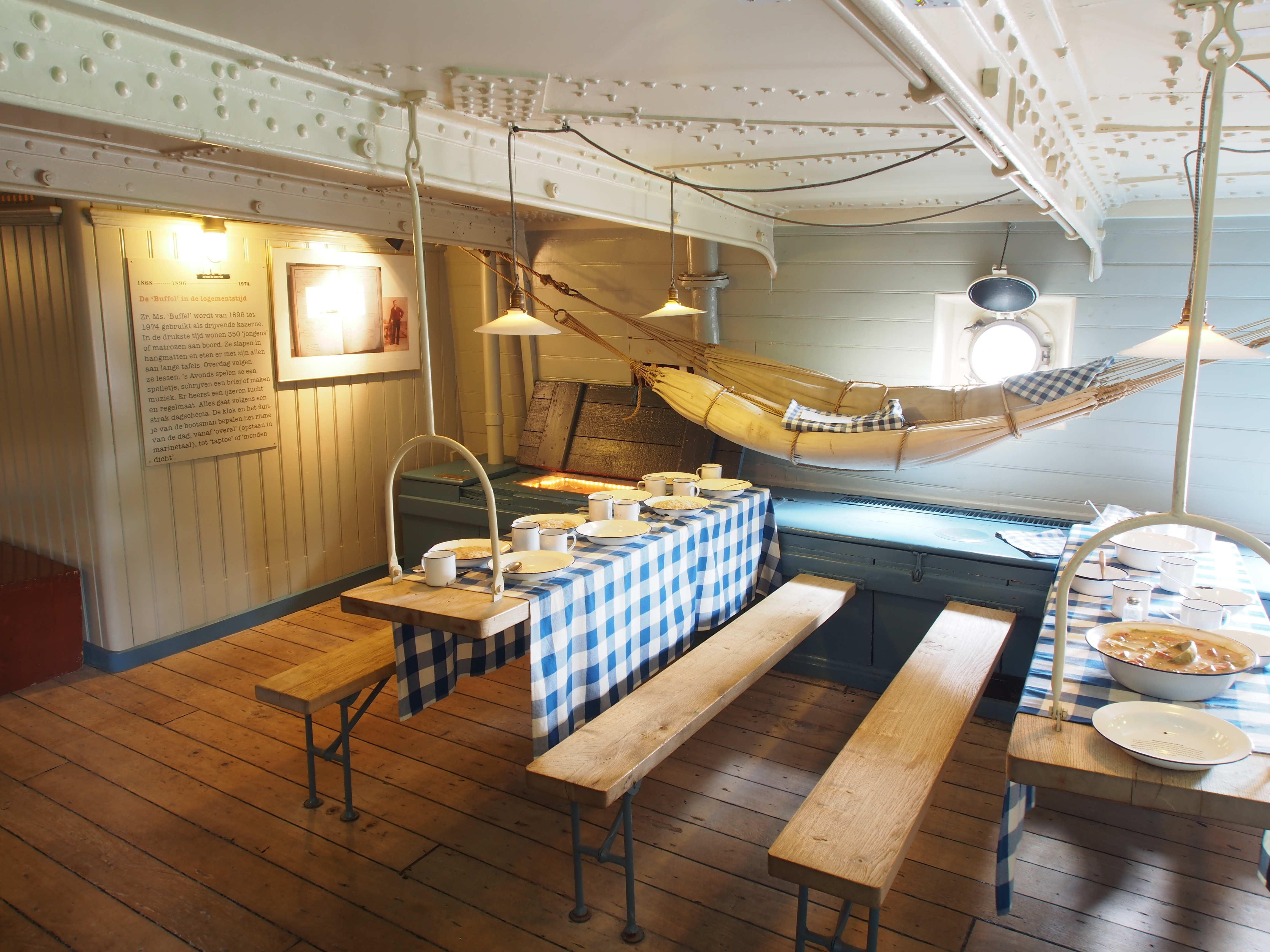 Photographed at museumship Hellevoetsluis, The Netherlands..